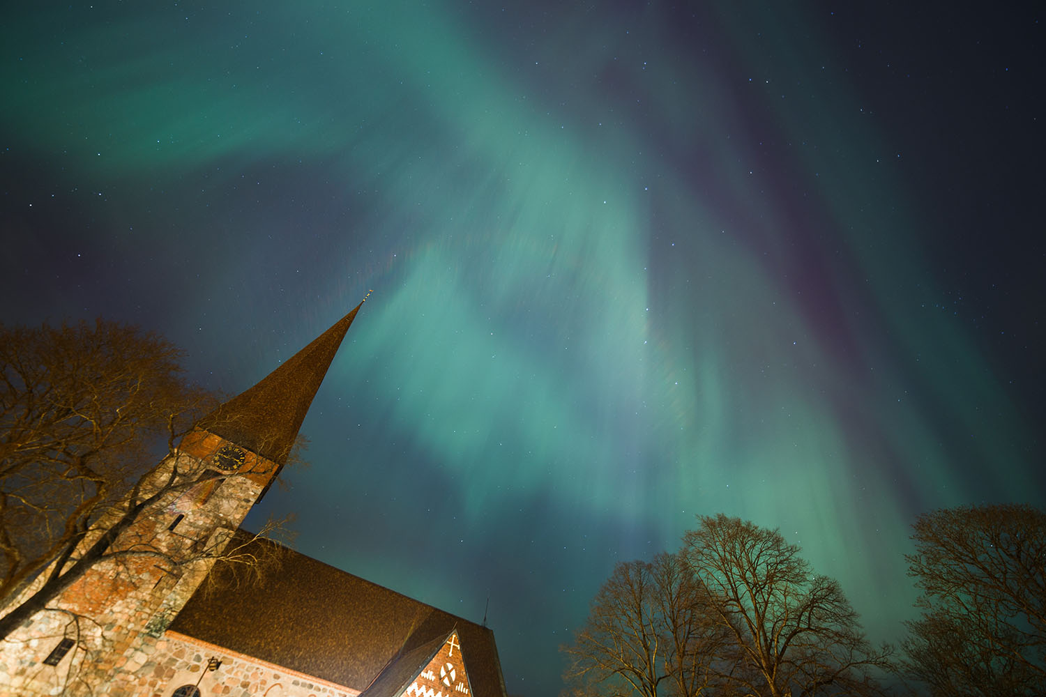 Aurora borealis over Vaksala church